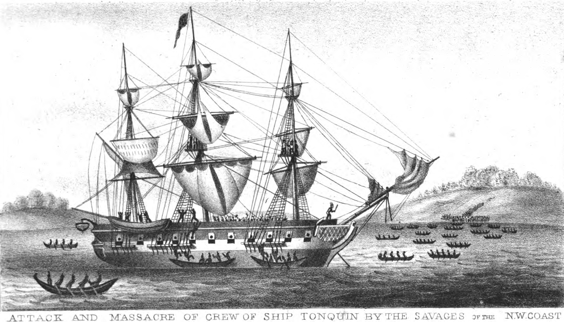 The Tonquin being attacked off the shore of Vancouver Island in 1811.